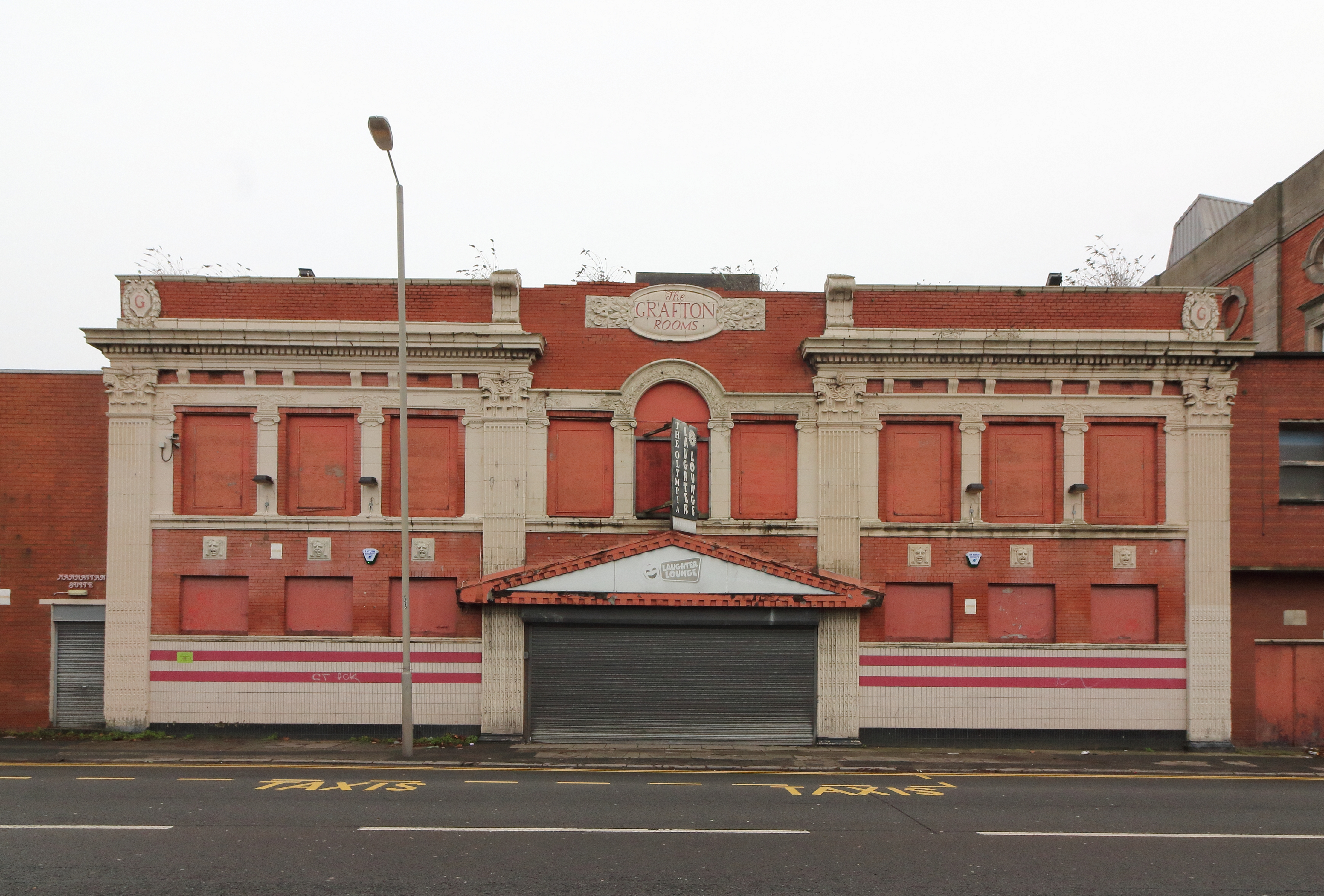 Frontage of the Grafton Rooms, noted former dance hall and currently a comedy club, West Derby Road, Kensington, Liverpool.